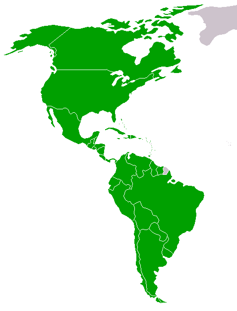 Map of the Organization of American States